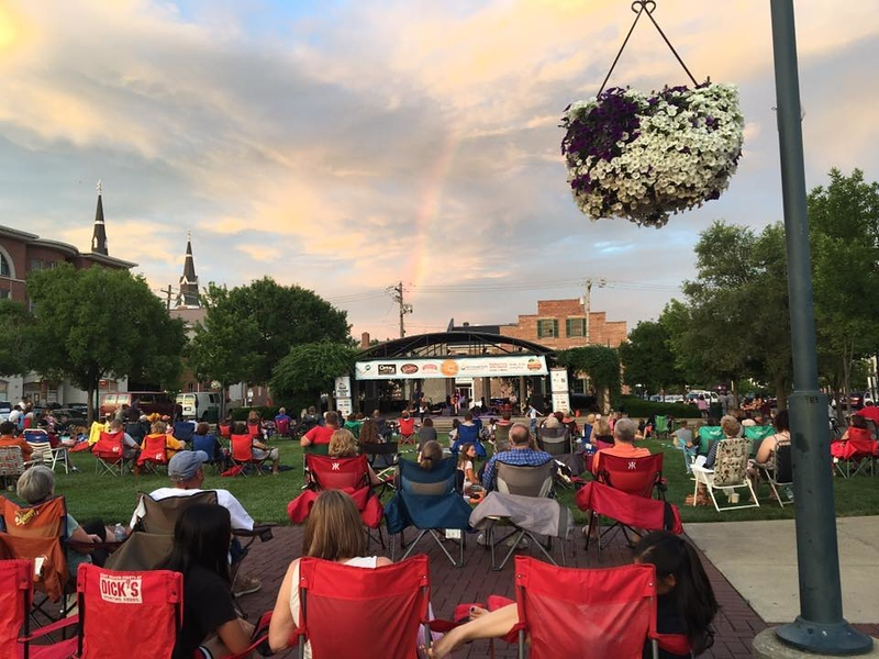 Crowd enjoys a Thursday night concert in the historic uptown district of Oxford, Ohio.